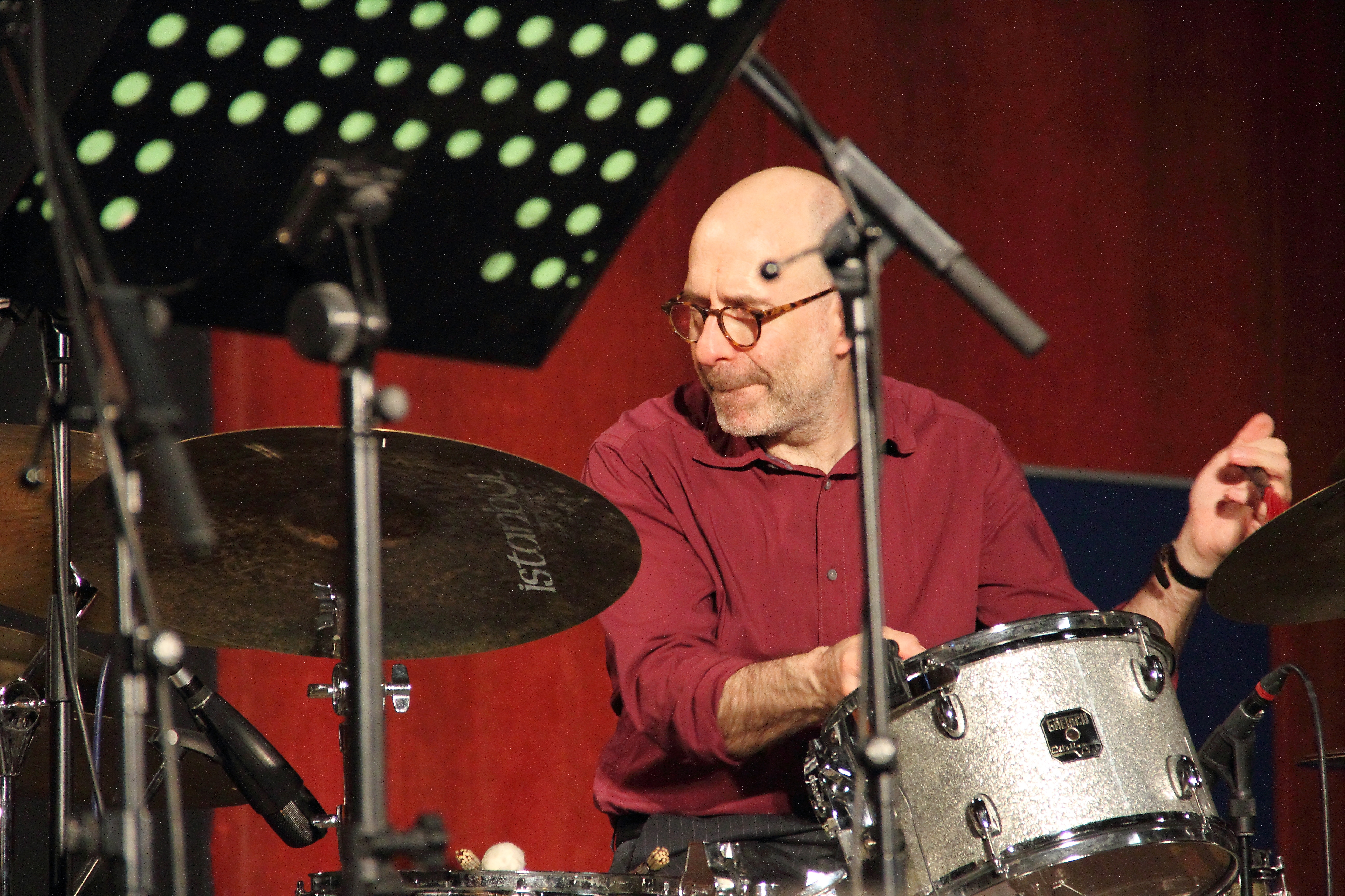 The Anna Lena Schnabel Quartet at INNtöne Jazzfestival 2018.